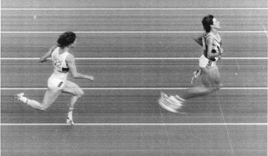 Official photo finish used for timekeeping of the final of the women's 400 metres hurdles at the 1987 East German athletics championships in Potsdam. Sabine Busch from Erfurt 1st; Cornelia Ullrich from Magdeburg 2nd. The time of 53.24 seconds is erroneously reported as being a world record; in fact, it was second in the all-time list at the time: Marina Stepanova had run 52.94 in 1986.